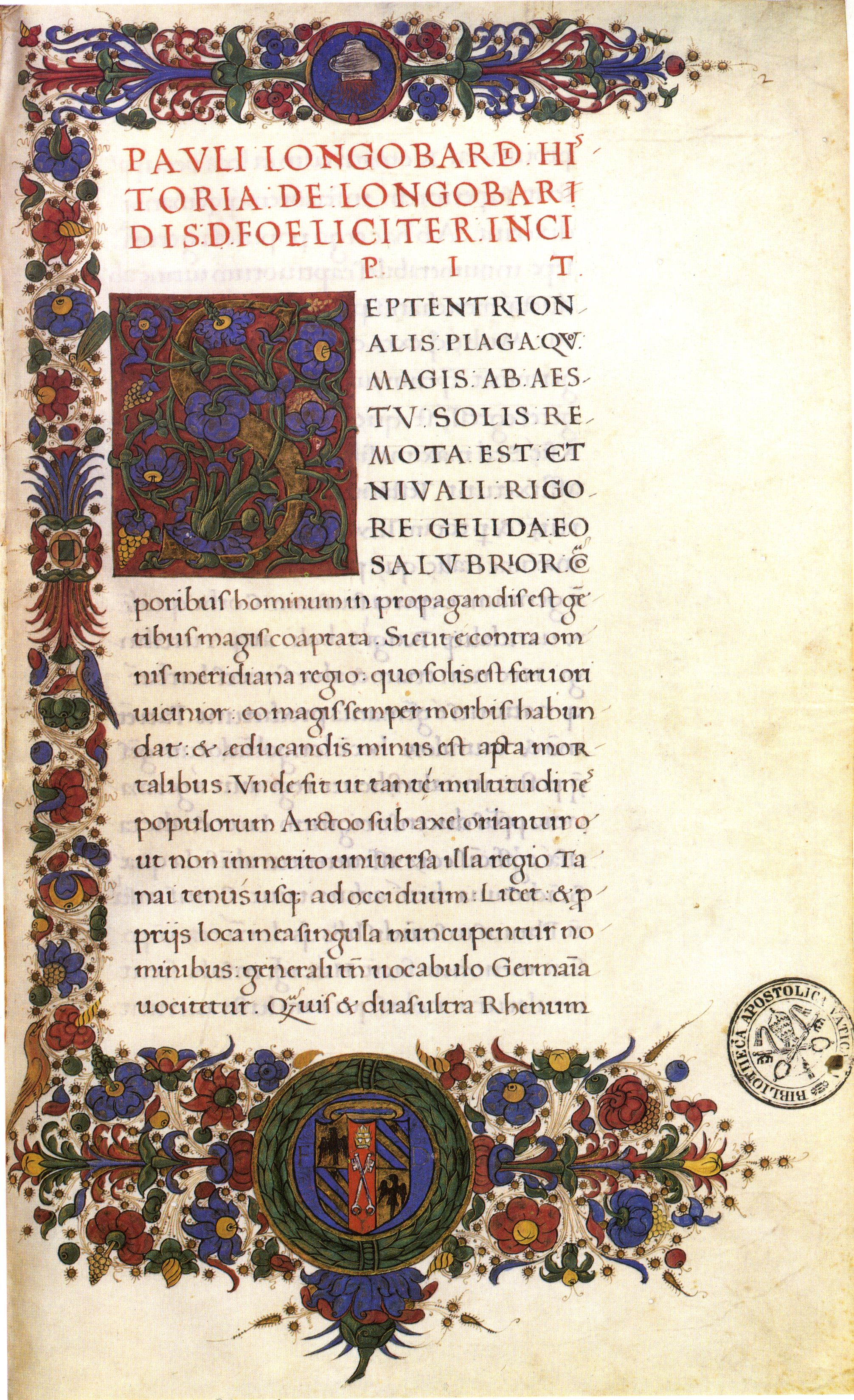 Paulus Diaconus, History of the Lombards (beginning) in a humanist manuscript. Biblioteca Apostolica Vaticana, Urbinas Lat. 984, fol. 2r.